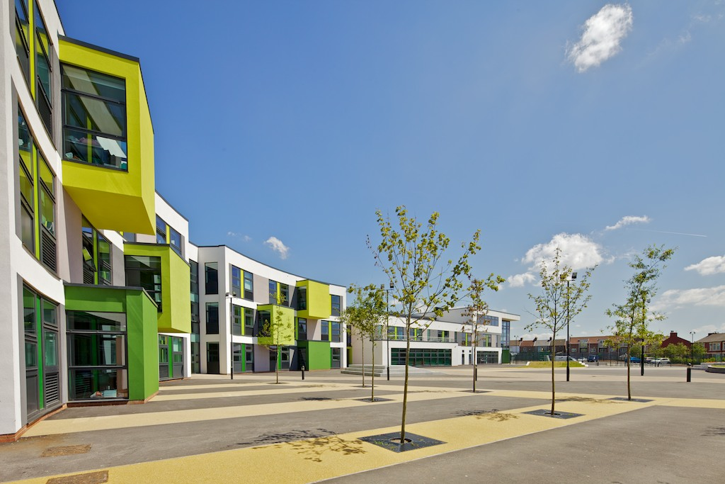 External landscaping